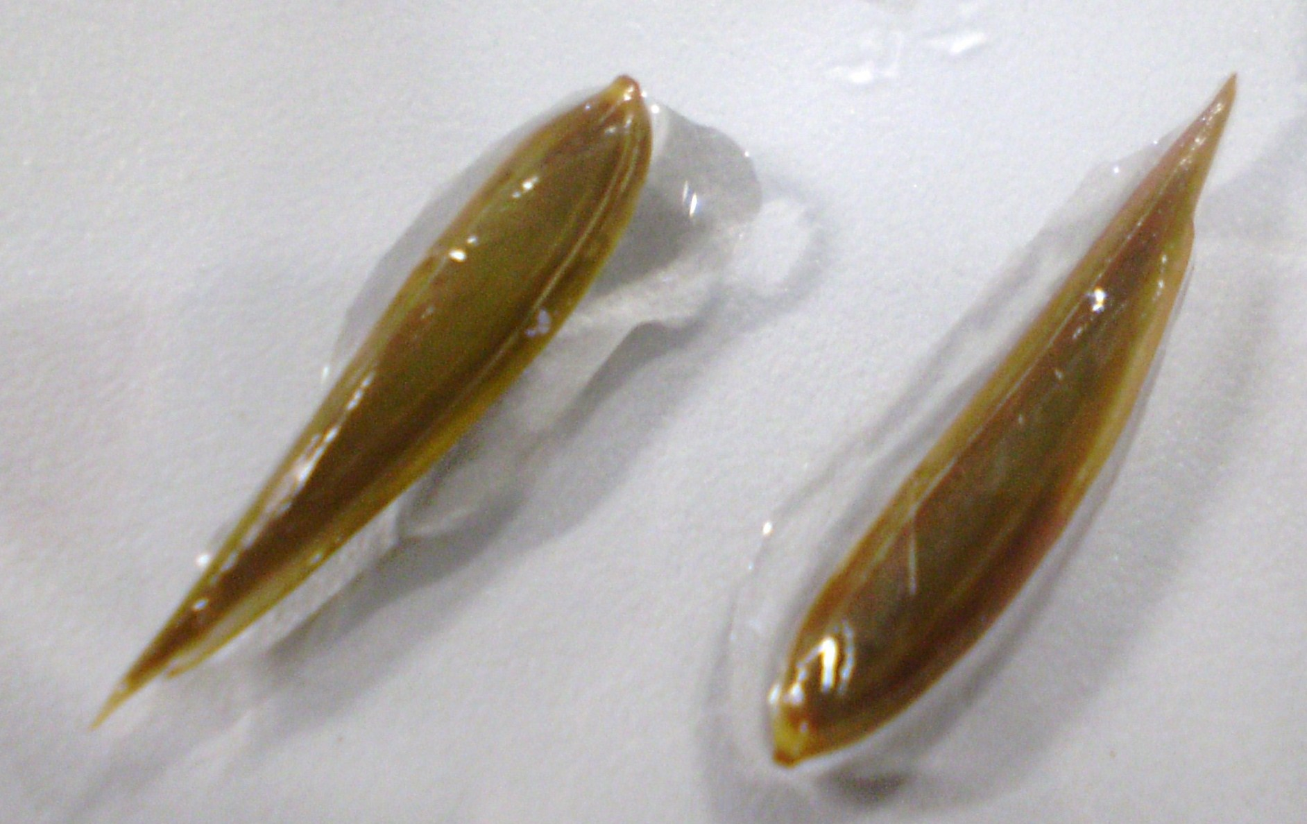 Turions of Caldesia parnassifolia